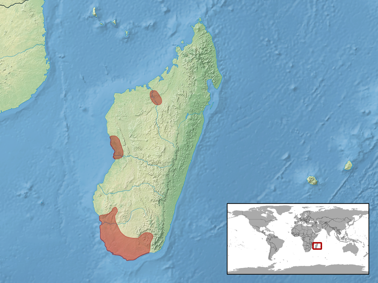 geographic distribution of Phelsuma mutabilis (Native: Madagascar)